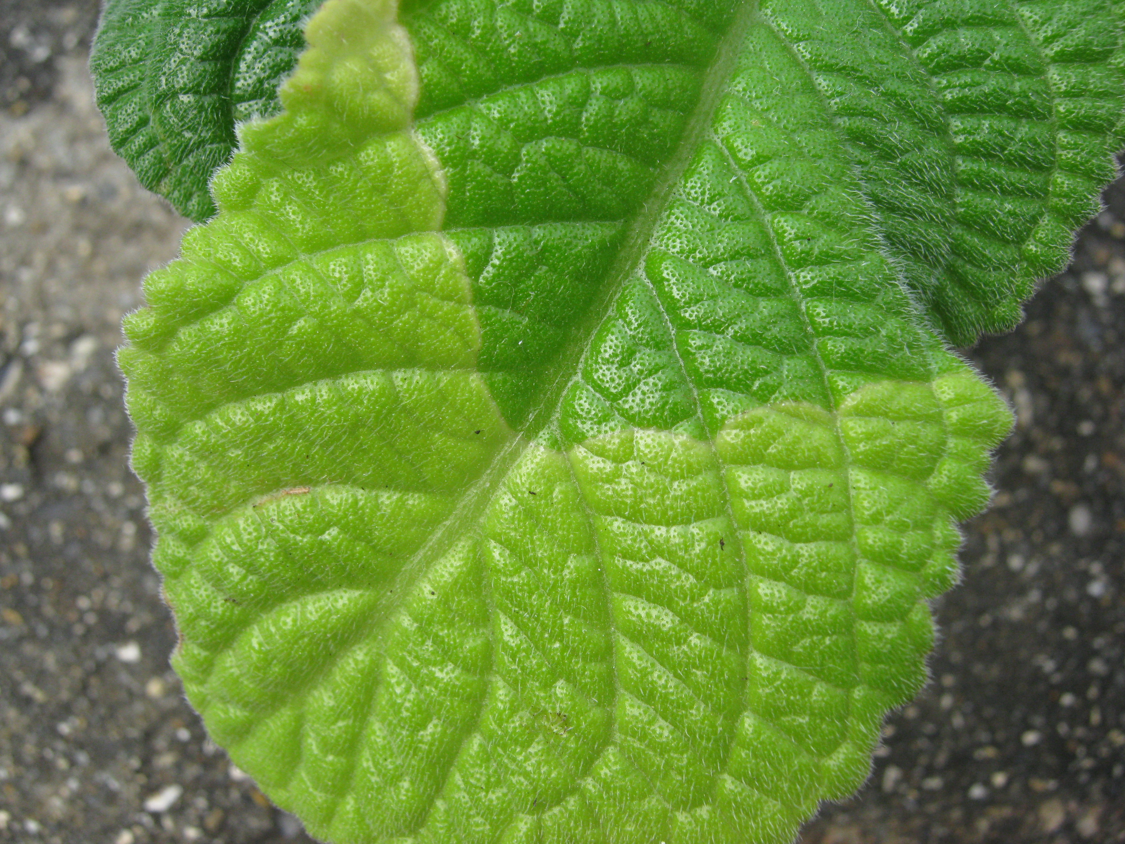 showing the abcission line on the tip of a streptocarpus leaf in southern UK.